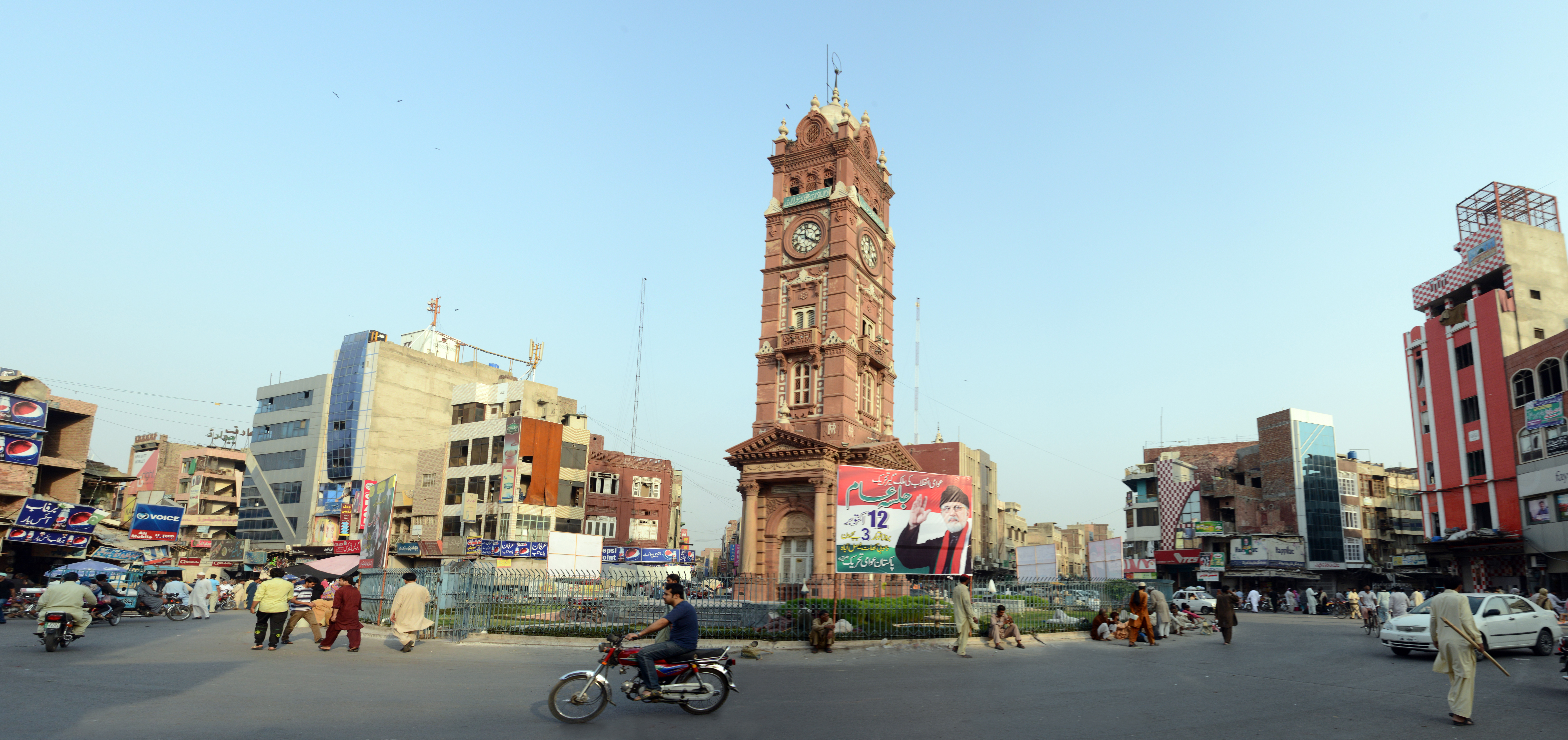 Panorama view of Clocktower Faisalabad on 12 Oct 2014